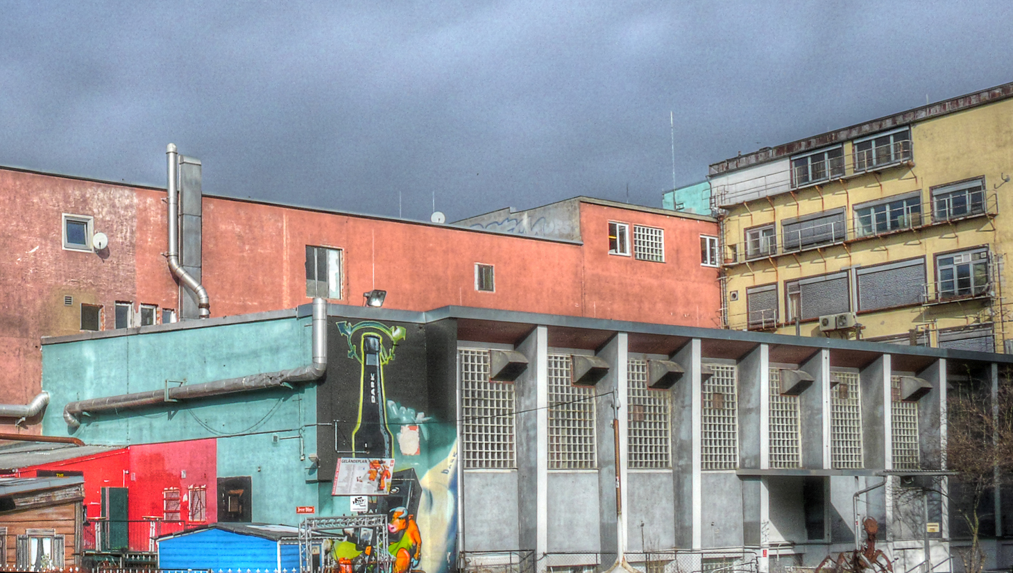 This image shows the techno club Ultraschall, which was located in the potato drying facility of the former Pfanni factory in Munich.